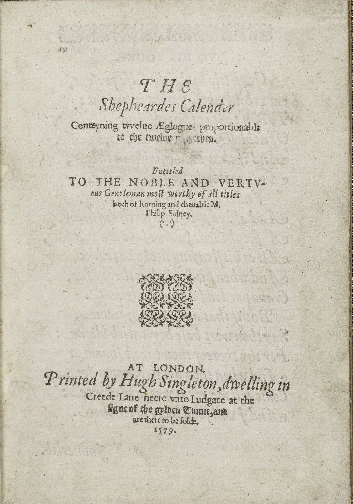 The title page of Edmund Spenser's Shepheardes Calender, printed in 1579 by Hugh Singleton